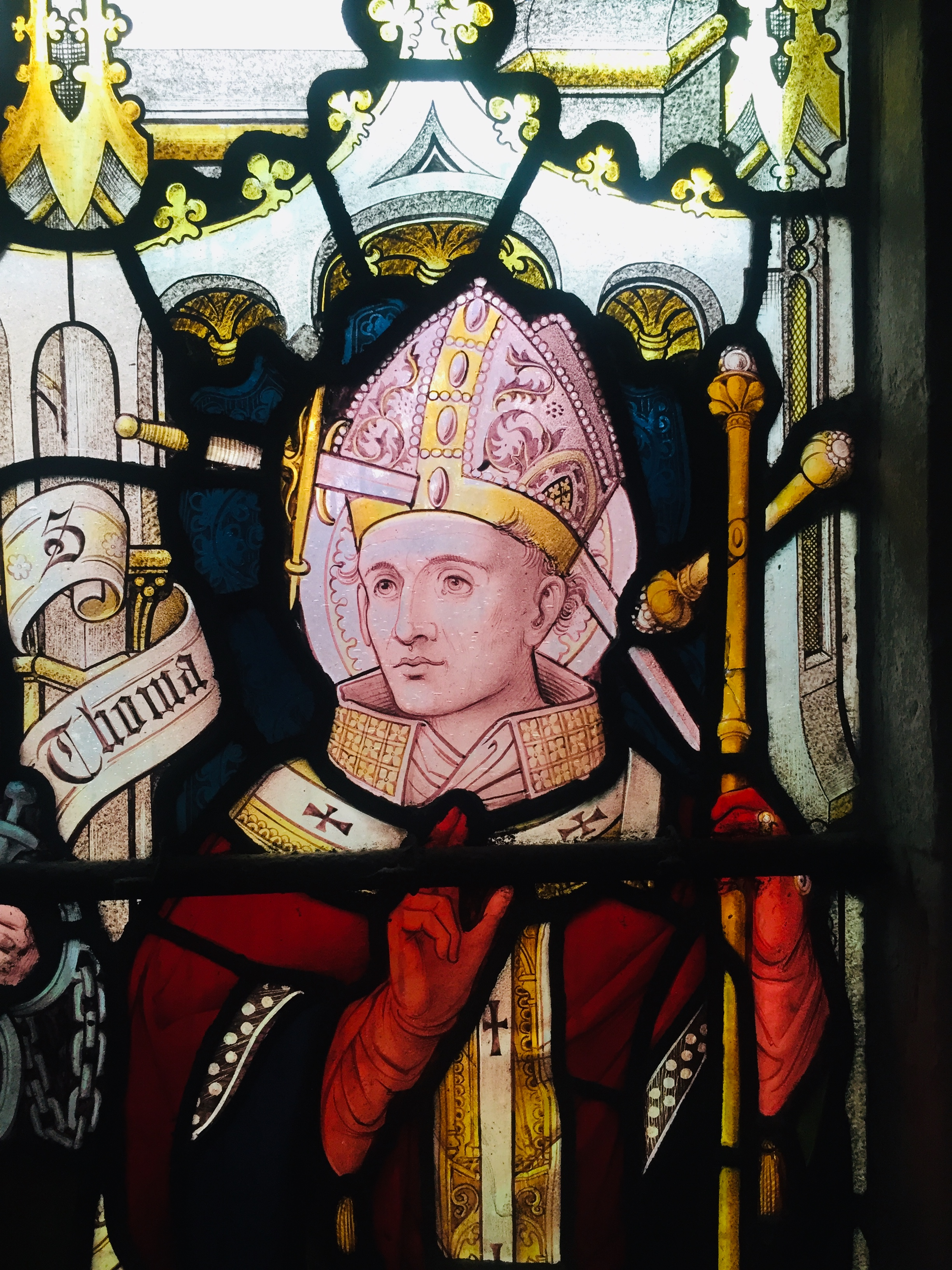 Cooper memorial Window, St Peter’s Berkhamsted by Nathaniel Westlake, in memory of industrialist William Cooper (1813-1885)